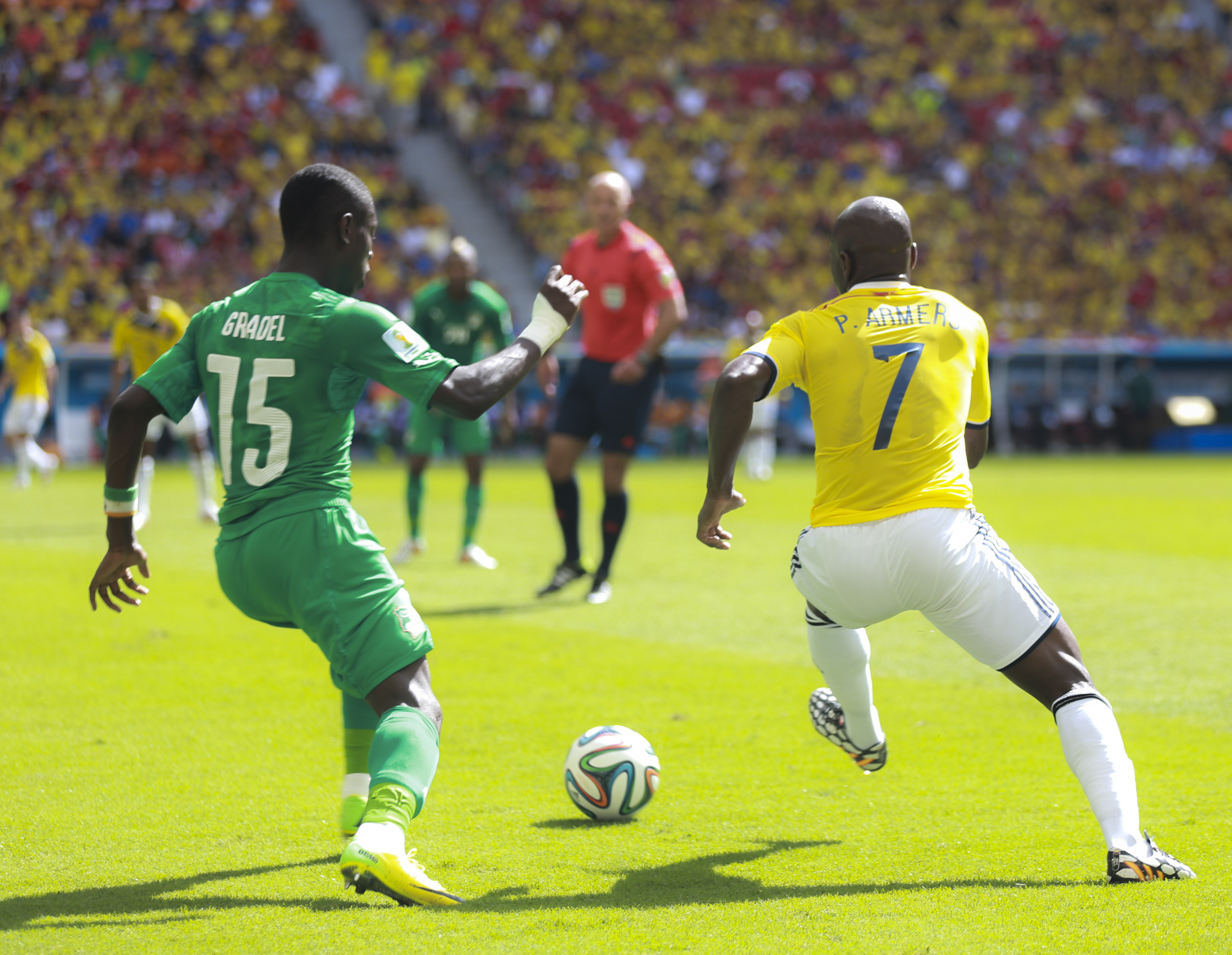 Colombia and Ivory Coast match at the FIFA World Cup 2014-06-19